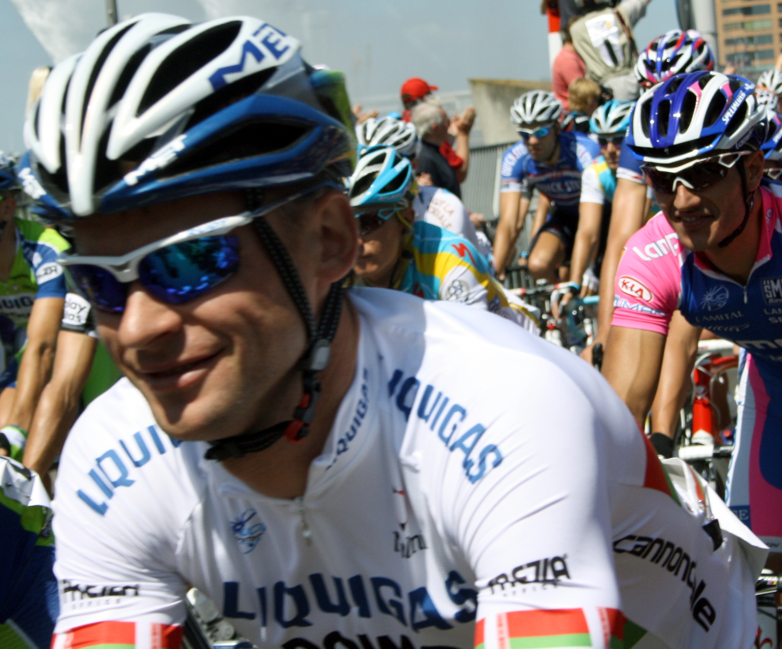 Aleksandr Kuschynski at the start of the first stage of the 2010 Tour de France in Rotterdam